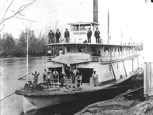 Beaver (sternwheeler) somewhere on the Willamette River ca 1875.